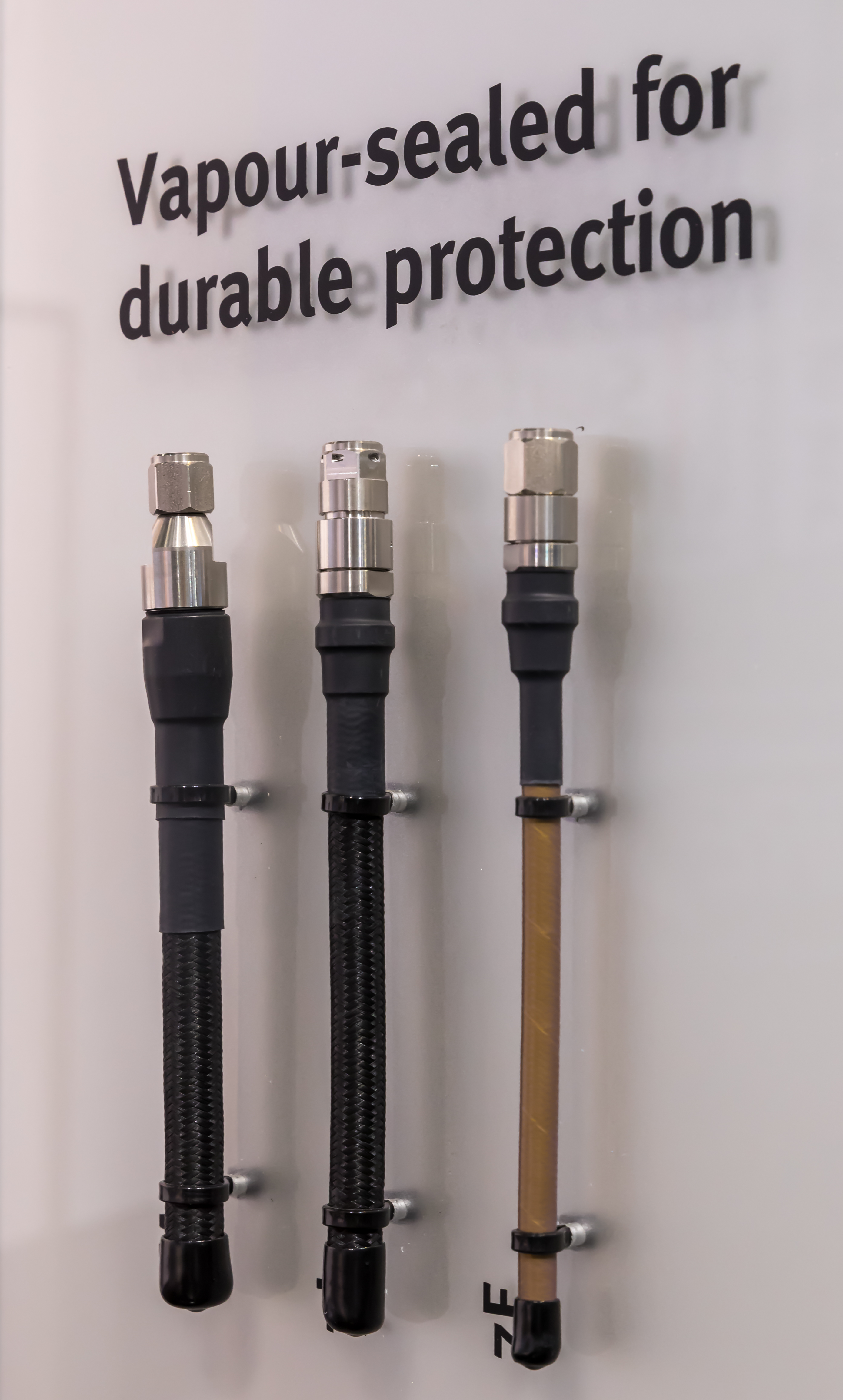 Vapour-sealed data cable (Q917186) for aviation by W. L. Gore and Associates displayed at Q408496 2018, Hamburg